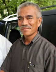 President Anote Tong of Kiribati. (cropped from original - higher resolution)